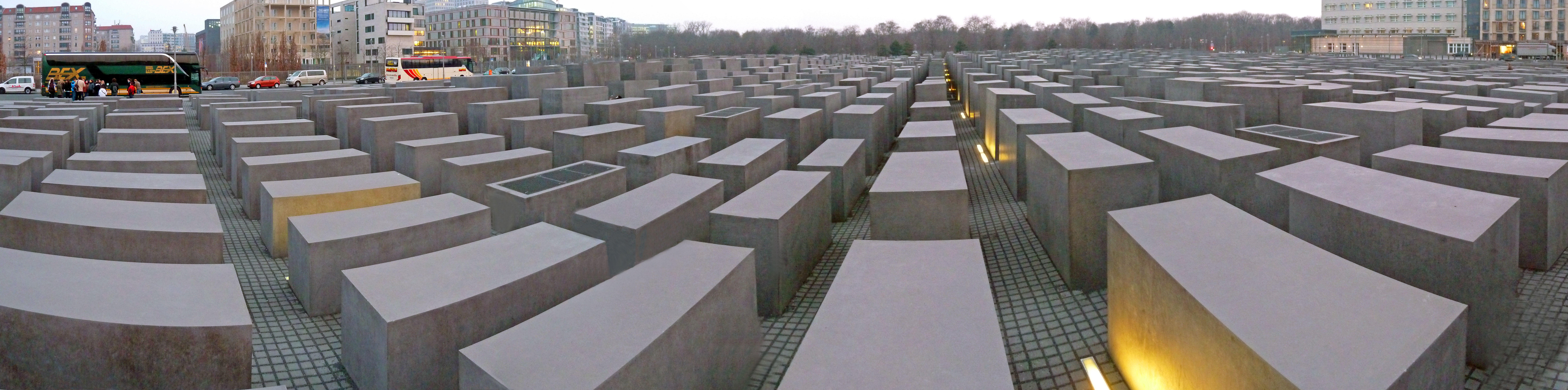 Memorial to the Murdered Jews of Europe